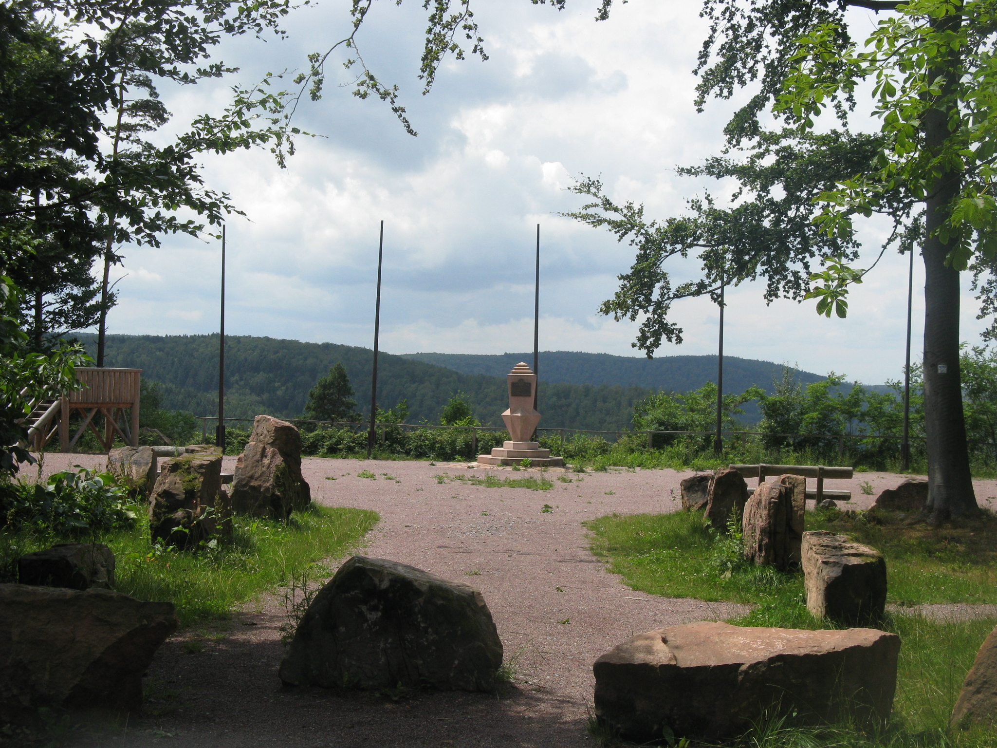 Heigenbrücken (Bavarian Spessart/Germany), War memorial / lookout